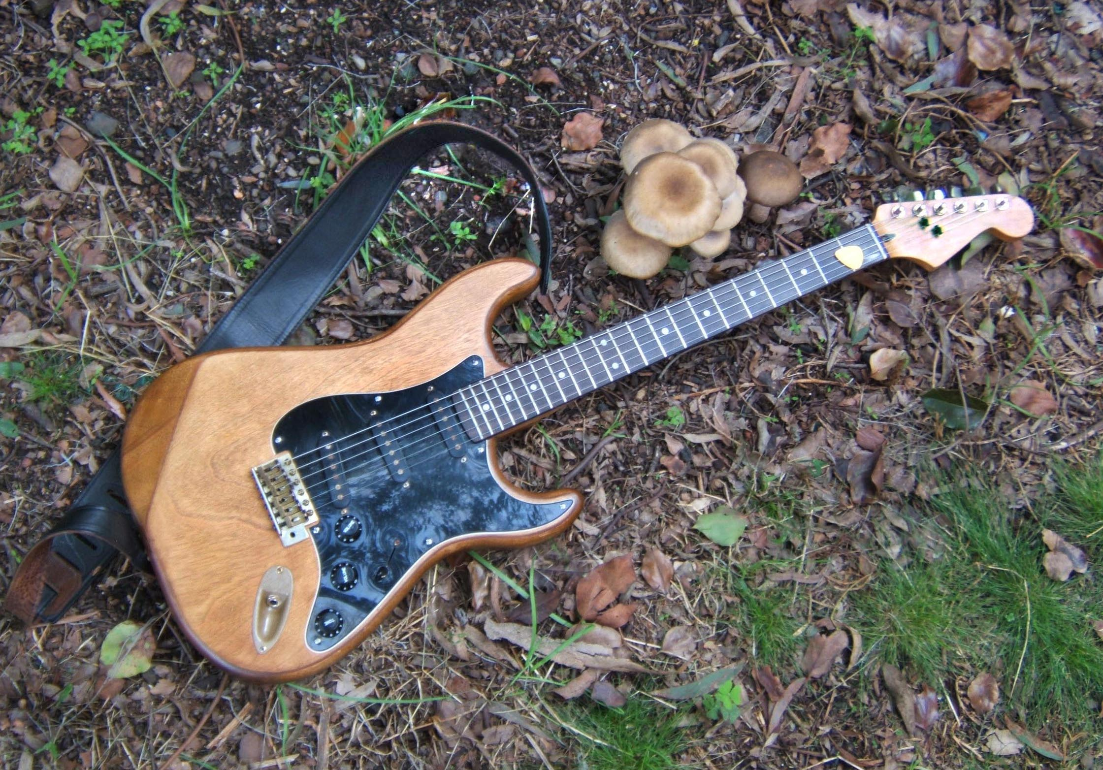 Cimar Strat. Stripped with new neck. Solid and reliable.